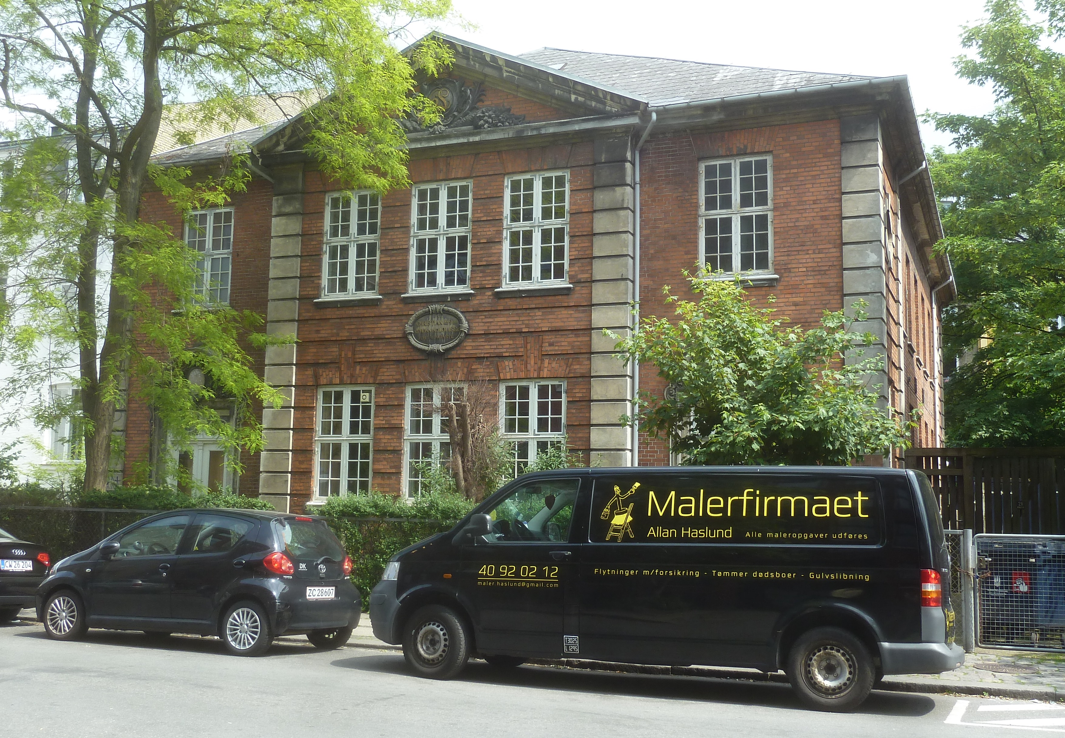 Kong Christian IX's og Dronning Louises Jubilæumsasyl at Valdemarsgade 21 in Copenhagen, Denmark